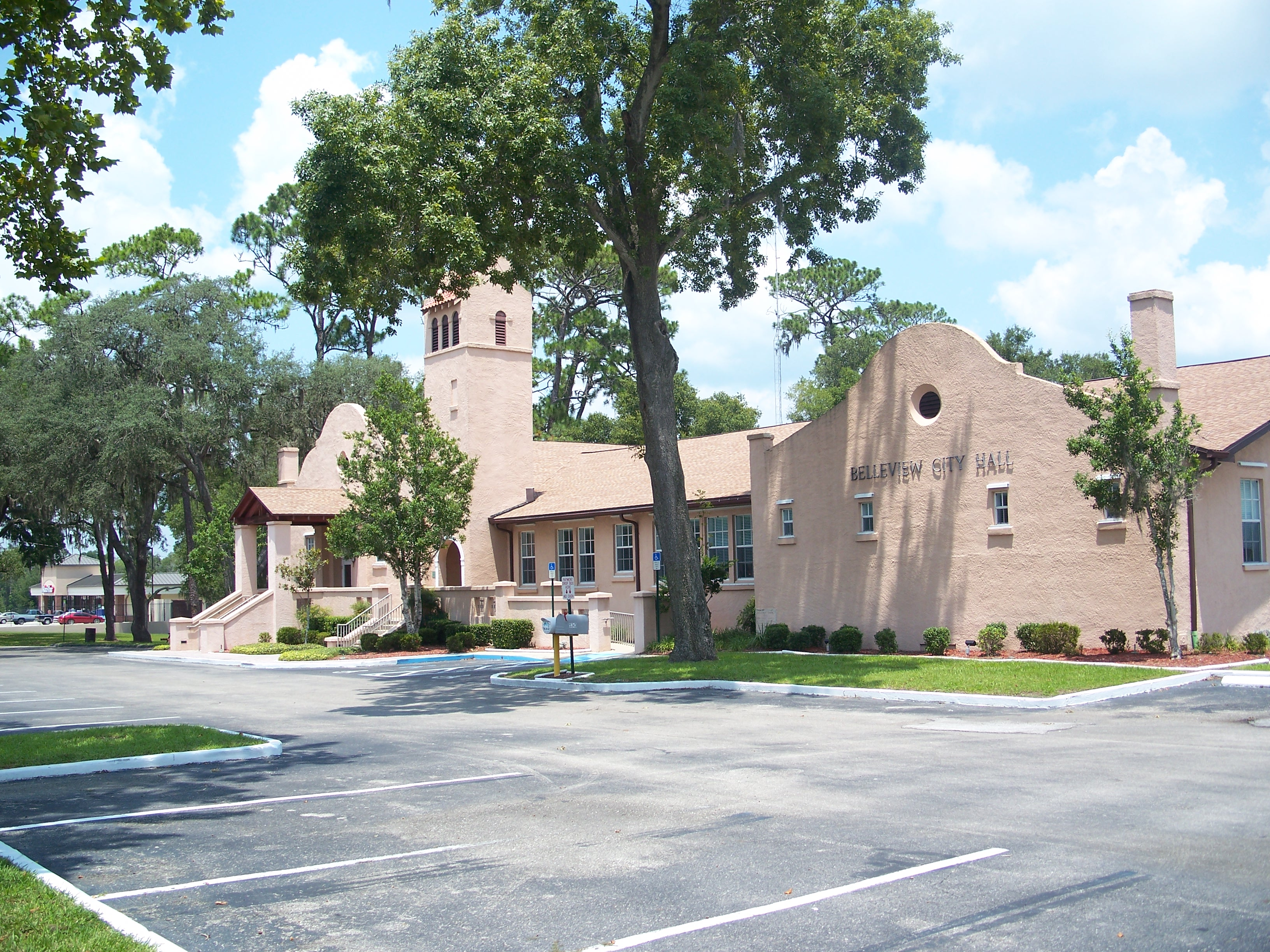 Former Belleview School (now City Hall) in Belleview, Florida